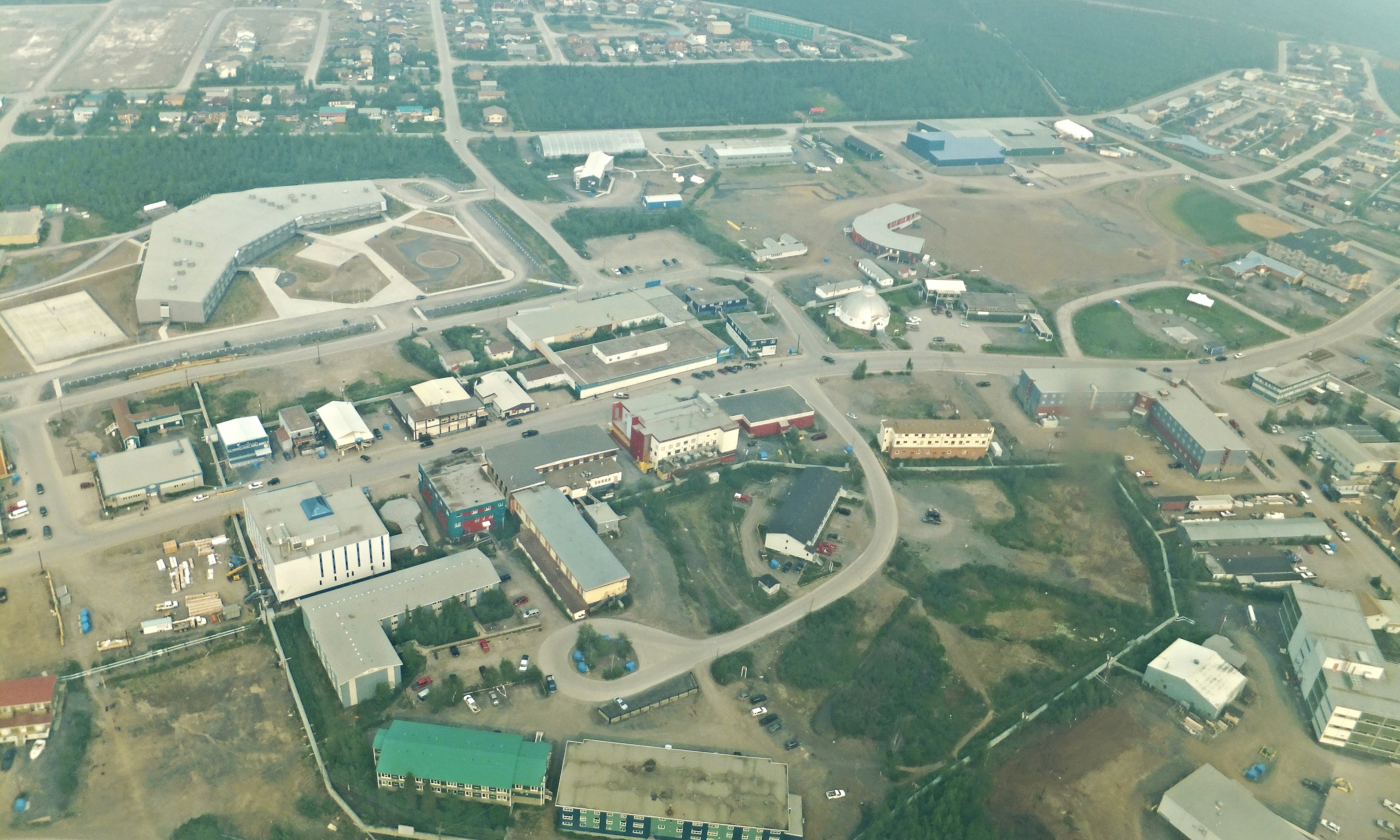 Inuvik town center. Air hazy from wildfires in Alaska.